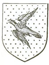 Supposed arms of the emperors of Trebizond. From: Telfer, John Buchan (1876), The Crimea and Transcaucasia; being the narrative of a journey in the Kouban, in Gouria, Georgia, Armenia, Ossety, Imeritia, Swannety, and Mingrelia, and in the Tauric range. London: H.S. King & Co.